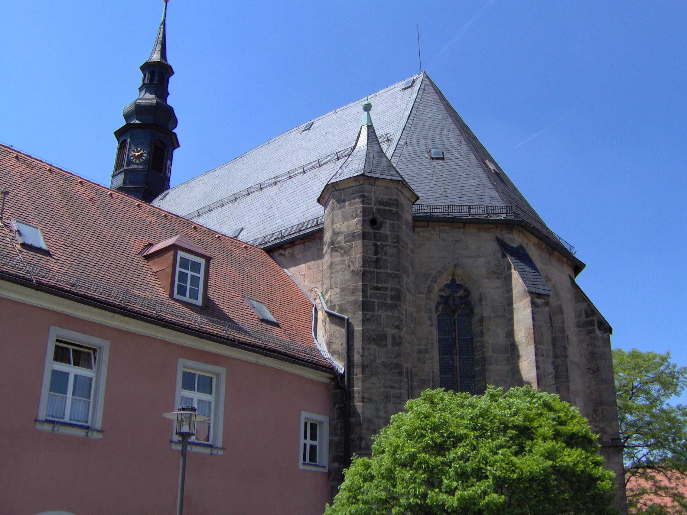 monastery Himmelkron, Germany. view from the townhall.